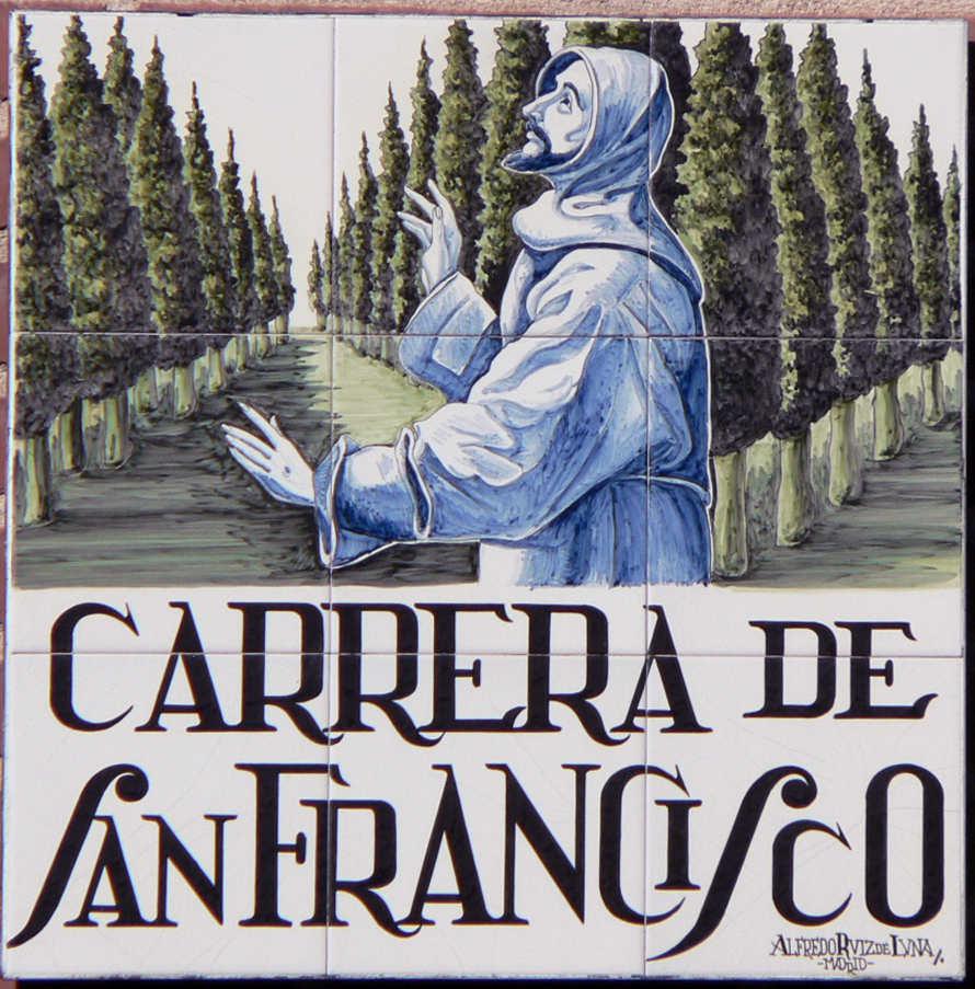 Sign of Carrera de San Francisco (street, Centro district) in Madrid (Spain).